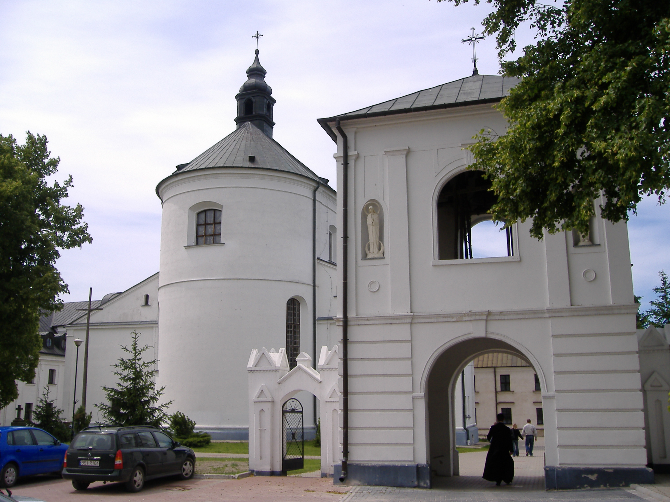 Drohiczyn cathedral.